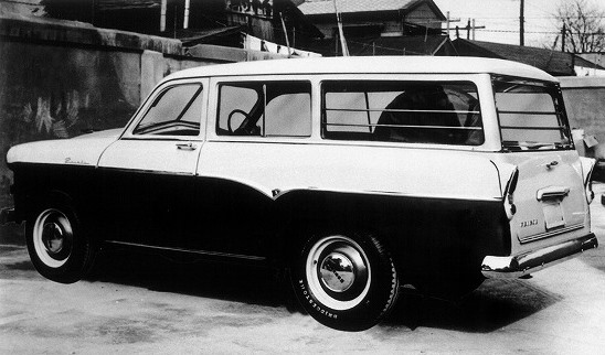 Prince Commercial Van AIVE (June 1956)